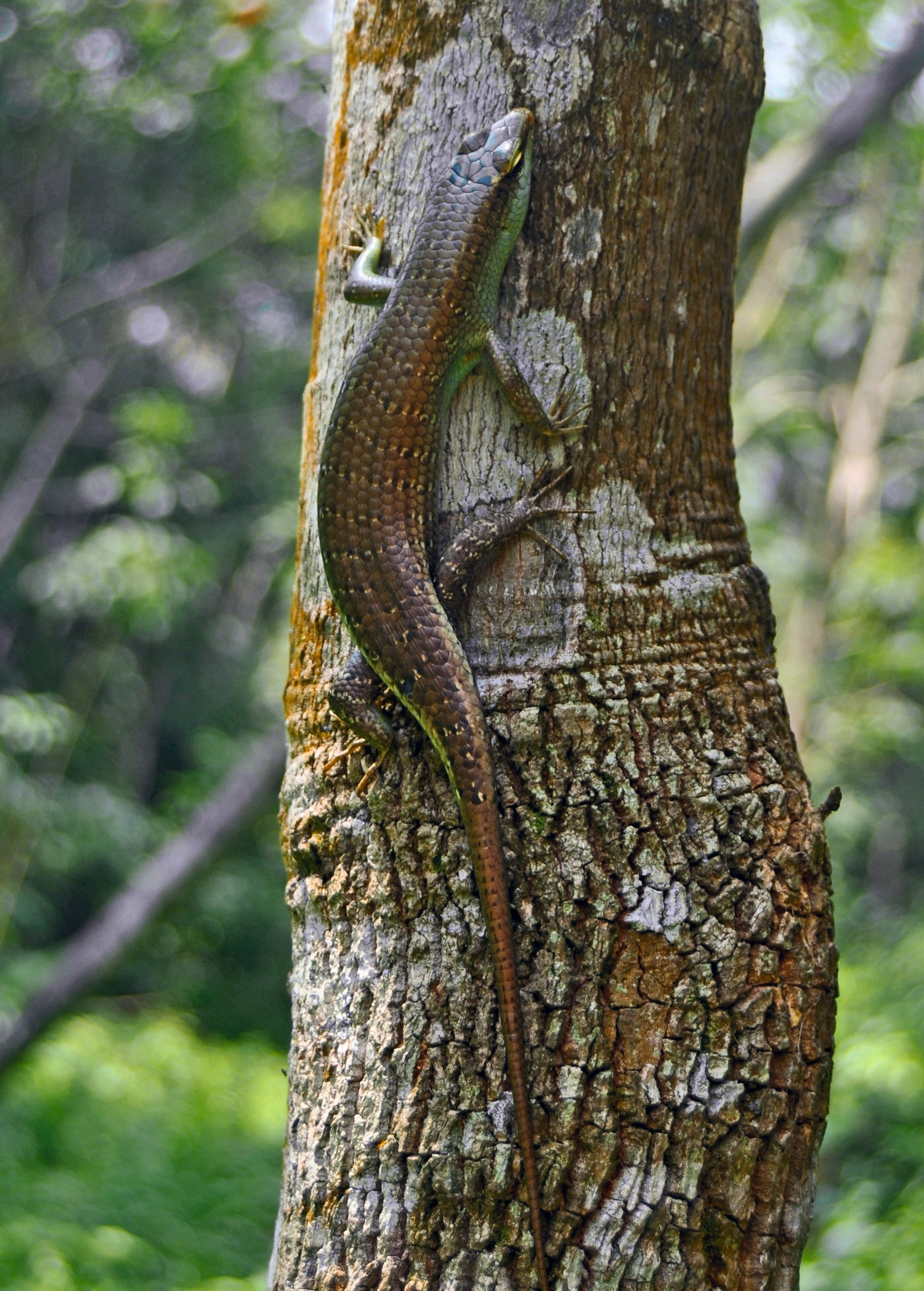 Dasia olivacea, Olive Tree Skink; climbing young rubber tree. From jungle rubber plantation (agroforest) in Merangin, Jambi, Sumatra, Indonesia